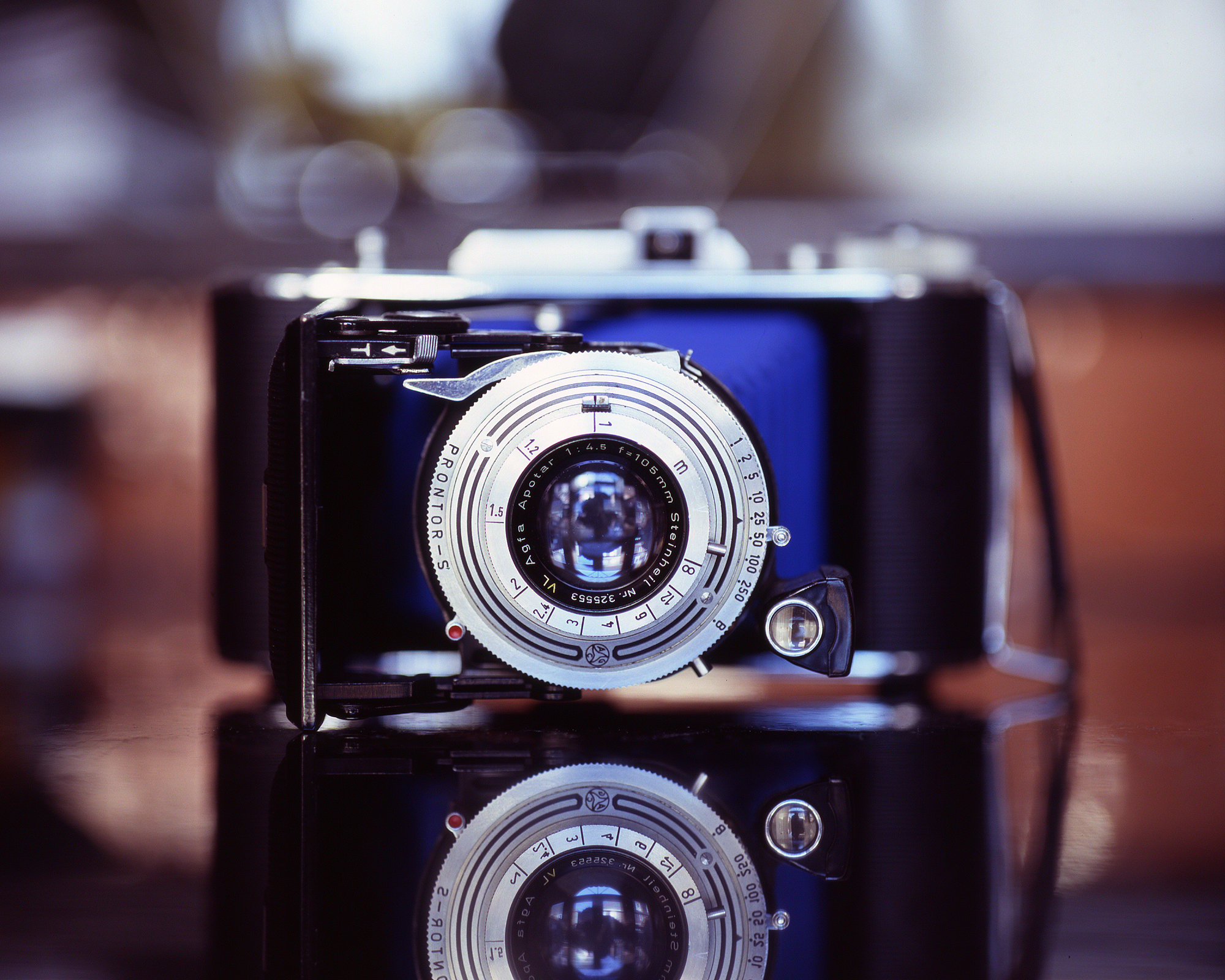 This photo was taken using a Super-Multi-Coated MACRO-TAKUMAR/6x7 1:4/135 lens wide open. (camera depicted in photo is AGFA Billy Record II with blue bellows) Agfa has manufactured several 6x9 folders under the Record name.This camera is very similar to other contemporary 6x9 "full size" folding cameras. What is not so common is that it has an accessory shoe, self timer and a mechanism which prevents an accidental double exposure. All these features in generally quite a modest camera.